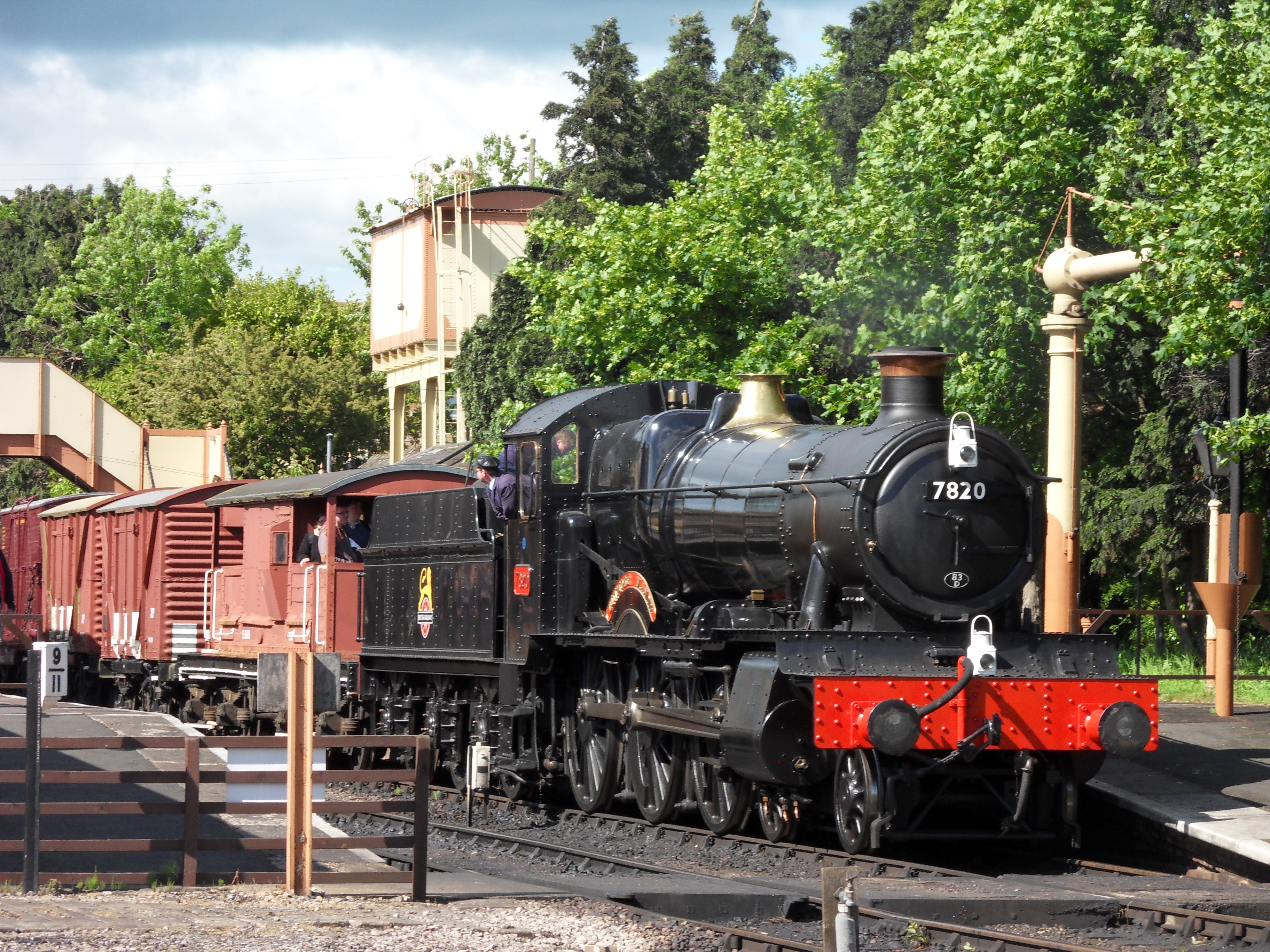 7820 Dinmore Manor at the Gloucestershire Warwickshire Steam Railway during the 2014 Cotswold Festival of steam at Toddington heading a freight train.